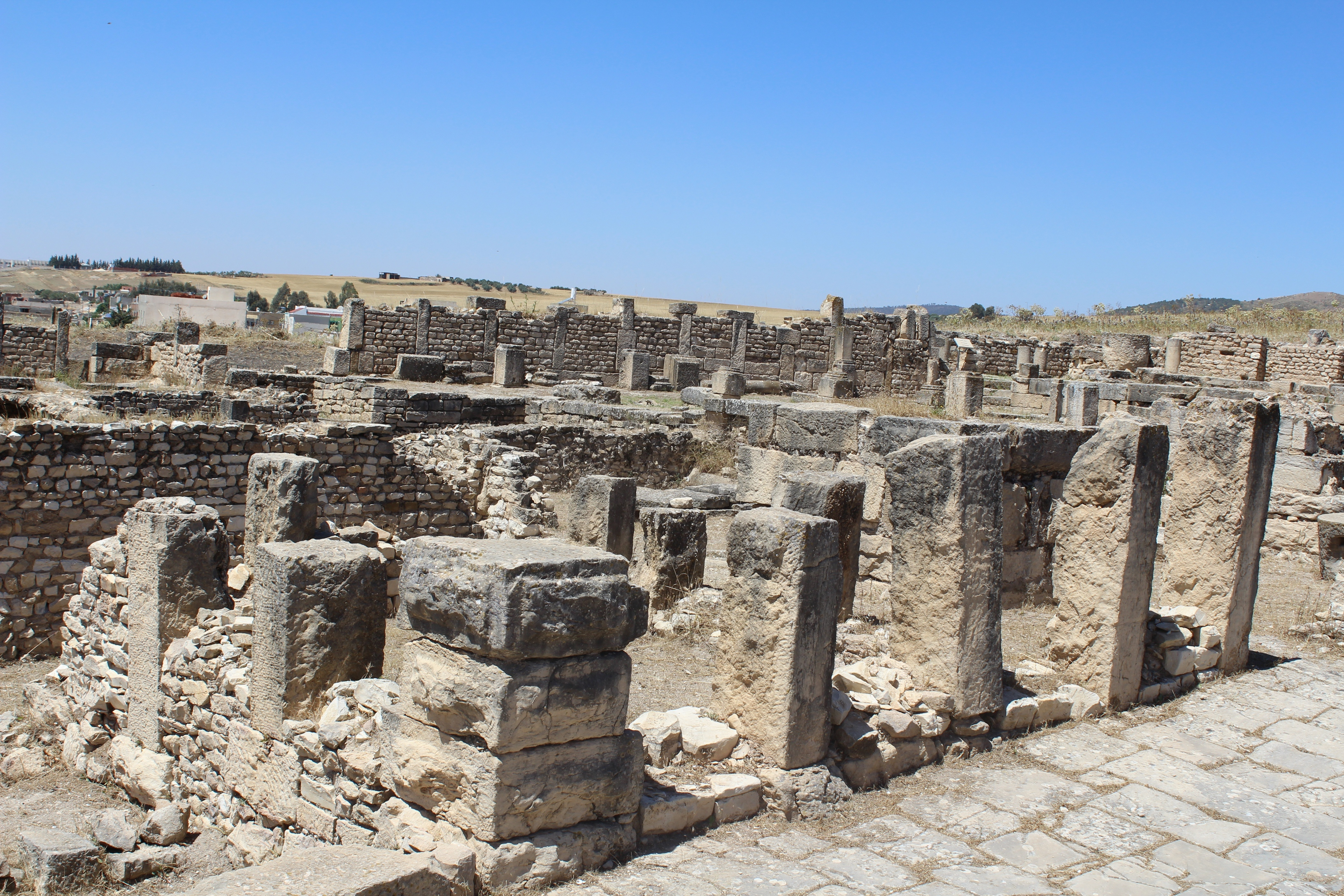 Mustis